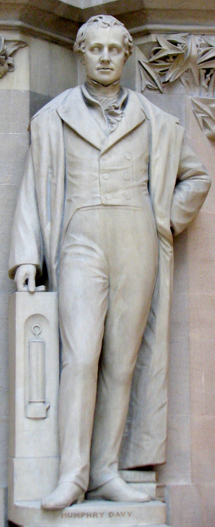 Humphry Davy, British chemist. Statue on permanent display in the Oxford University Museum of Natural History.